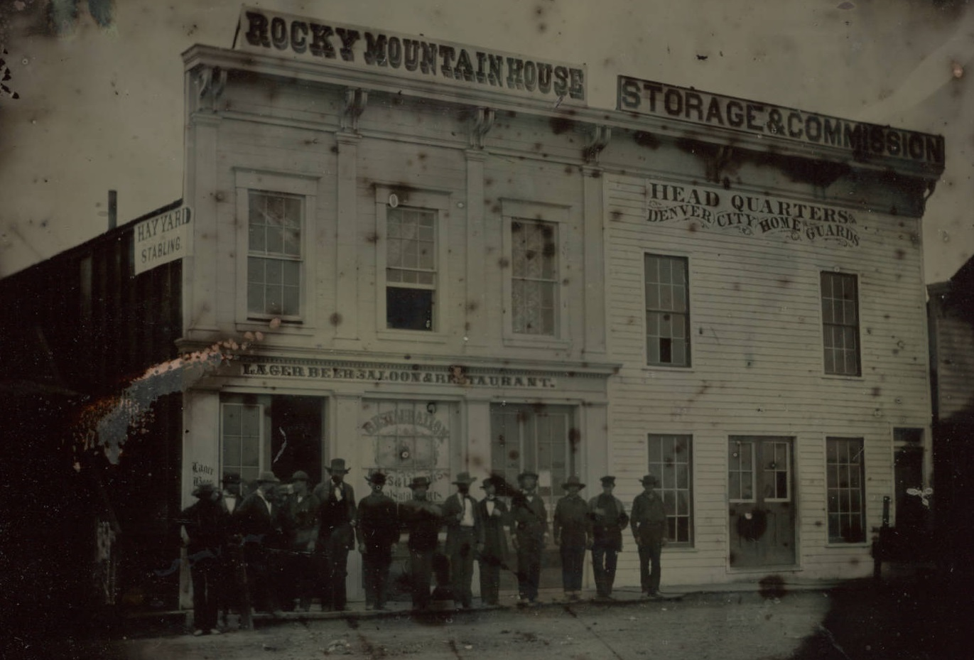 "Men, members of the Denver City Home Guard organized to fight in the Civil War, pose in front of the Rocky Mountain House, a bar and restaurant in Denver, Colorado."